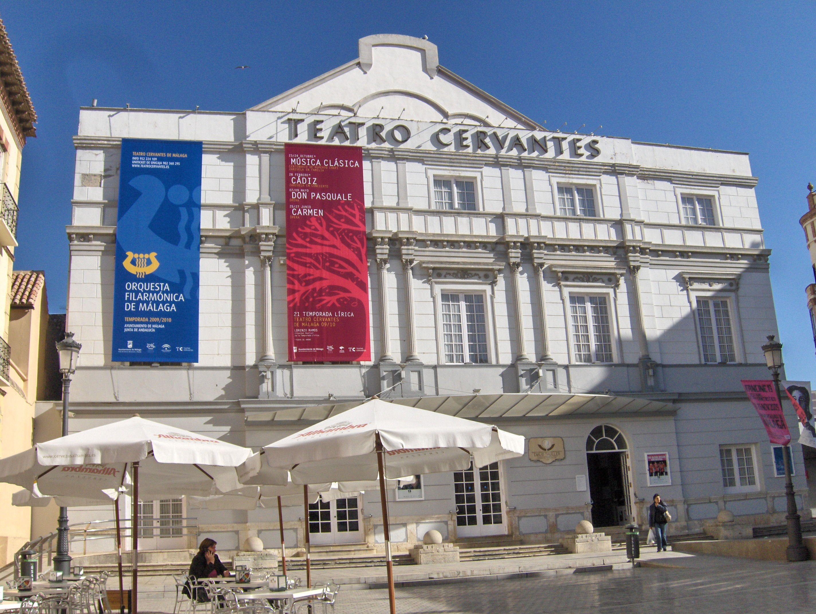 Teatro Cervantes, Málaga.